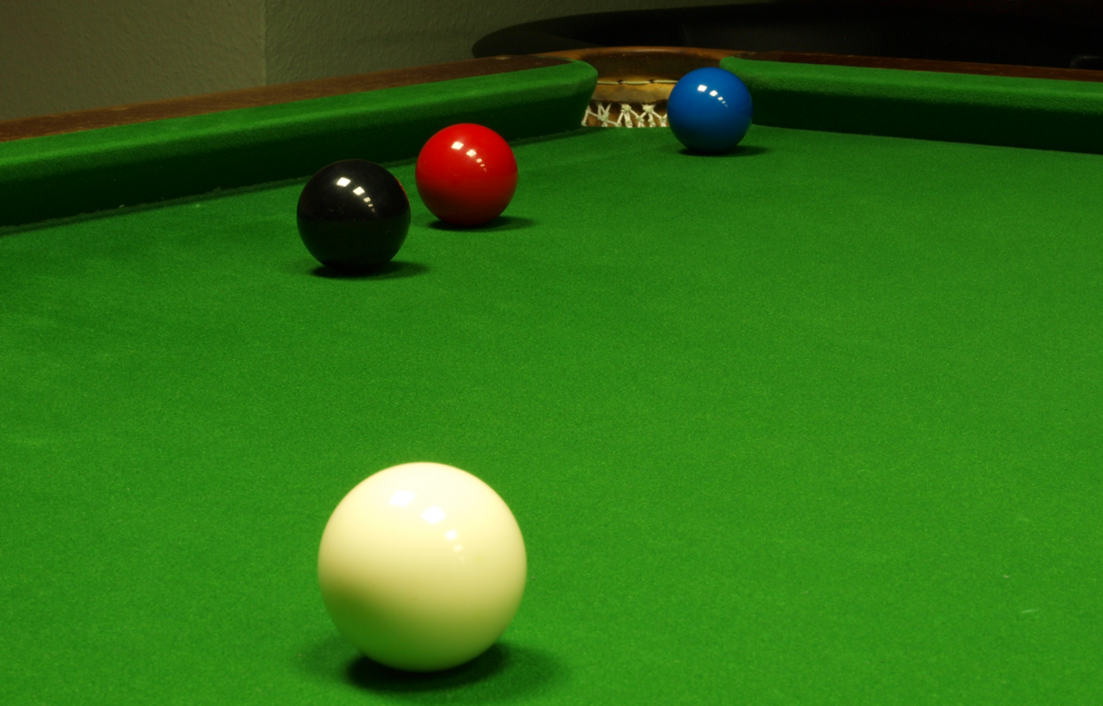 Freeball - After a foul, the player cannot strike both extreme edges of the last Red, so he is free to call Blue as Red.